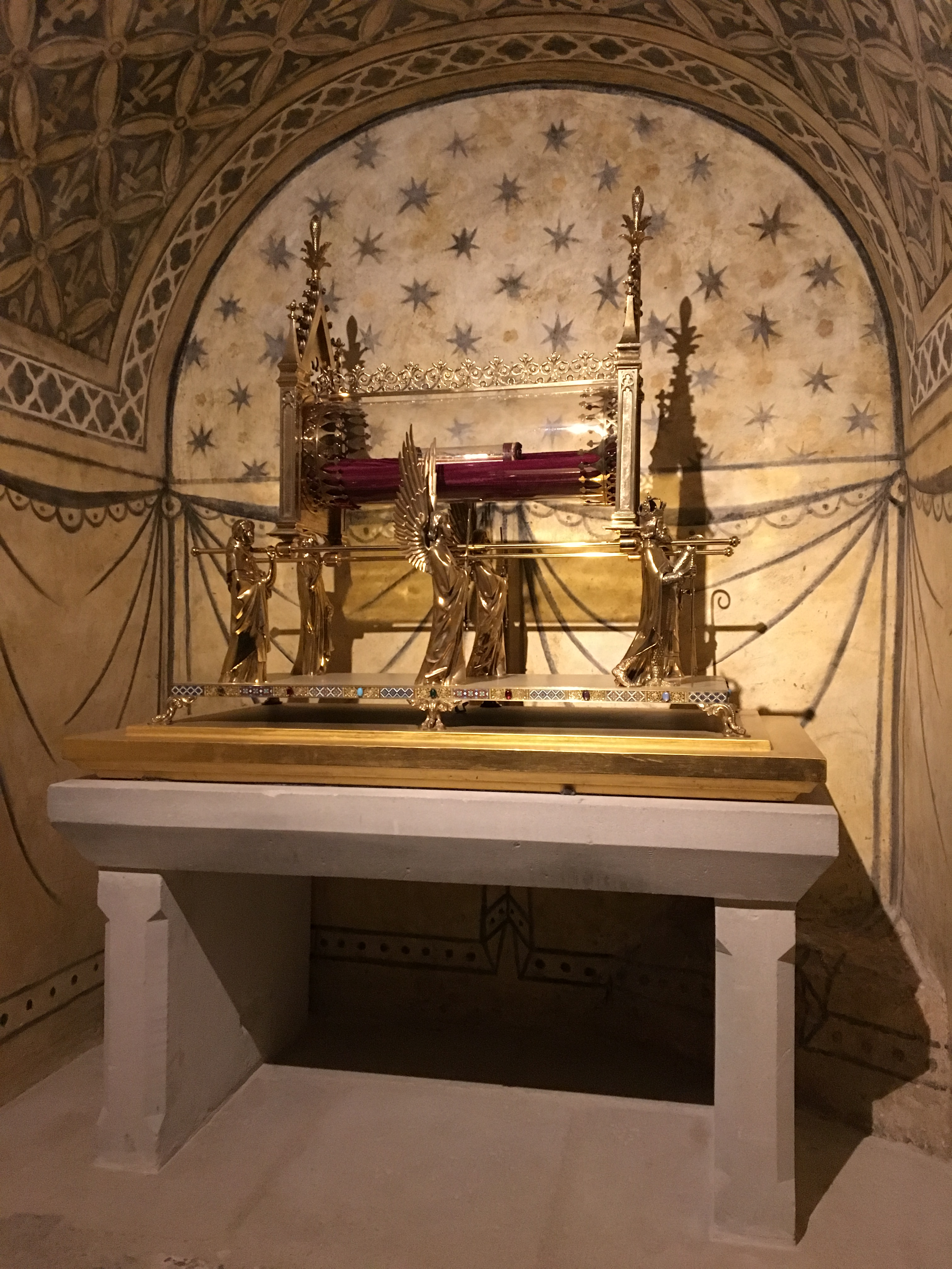 Mary Magdalene's relics